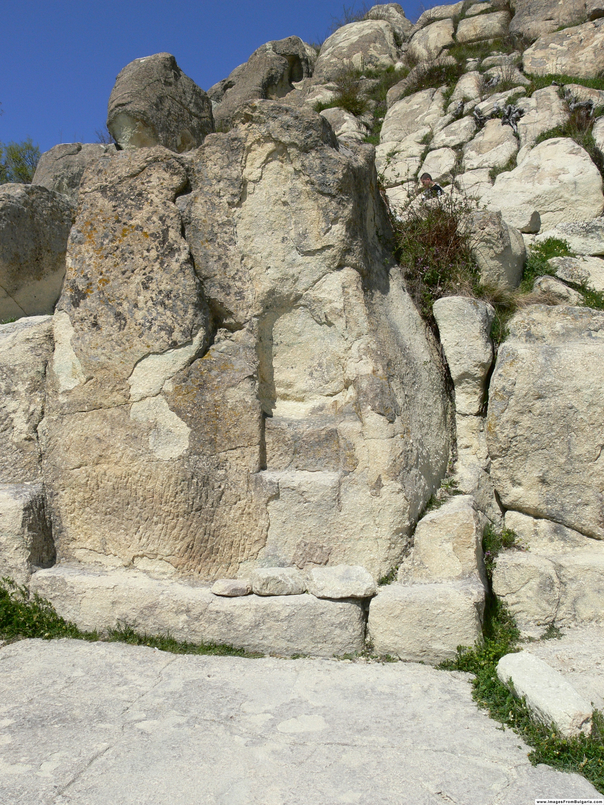 Perperikon — ancient Thracian town in the Rhodope Mountains